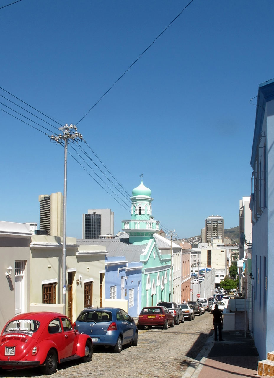 most of the structures in this section of Longmarket St between Rose St and Chiappini St are declared Monuments This media shows a South African Protected Site with SAHRA file reference 9/2/018/0264/007.